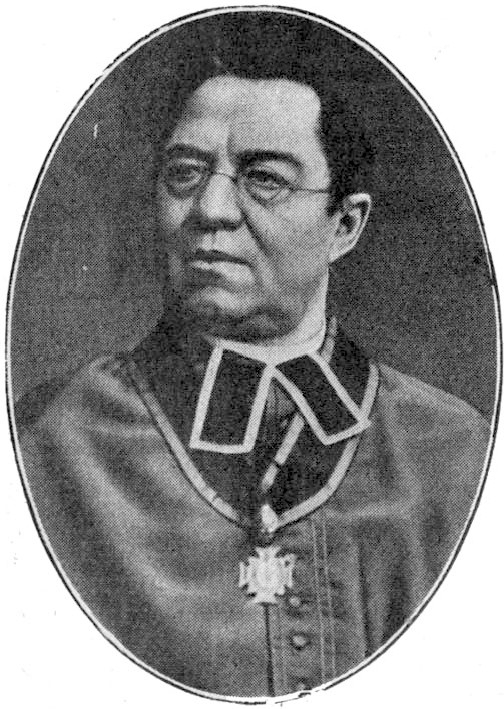 Dr. Franz Xaver Schädler in priest dress